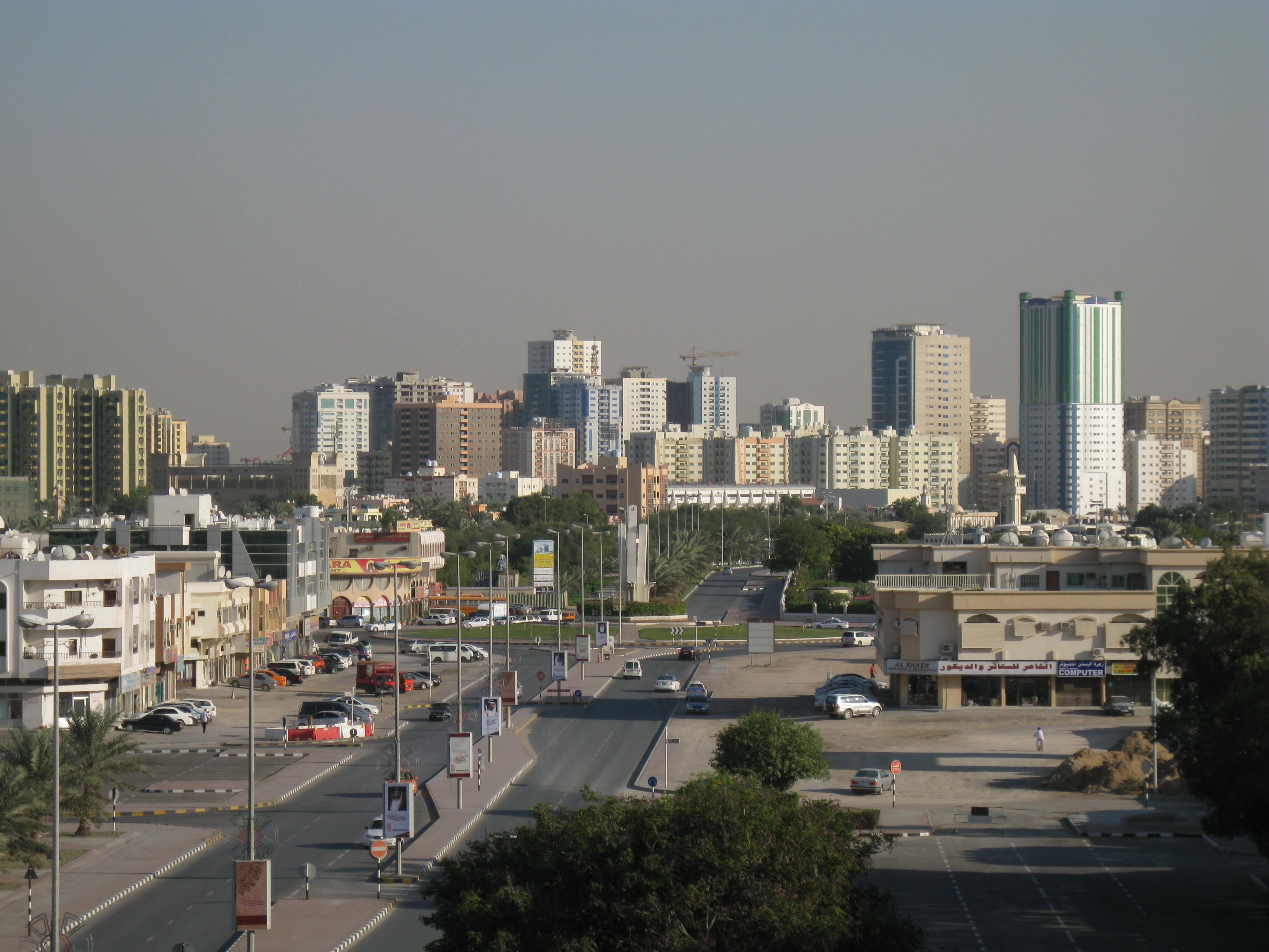 Al Zaher Palace Street, Ajman, United Arab Emirates.